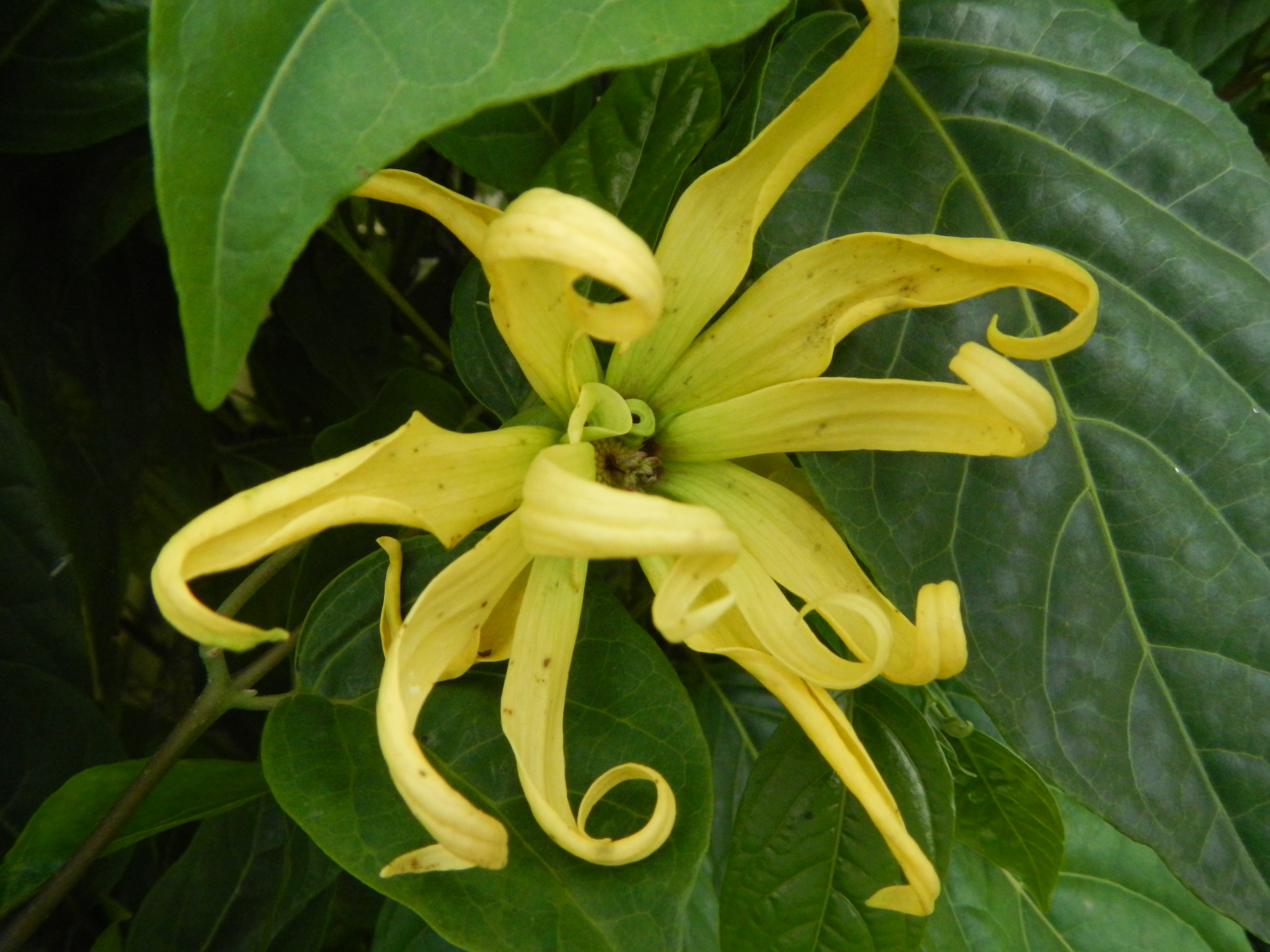 Cananga odorata Cangana odorata macrophylla Cannagium odoratum macrophylla yields Cananga oil, in San Juan de Dios Chapel (San Juan, Aliaga, Nueva Ecija) in [ Barangay San Juan, Aliaga, Nueva Ecija (beside Barangay Bucot, Aliaga, Nueva Ecija (from the Aliaga, Nueva Ecija Welcome Arch and Road sign from Zaragoza, Nueva Ecija - along Carmen, Zaragoza-Cabanatuan City, Nueva Ecija Road Km. 127+909 to Km. 140+918 gateway to Cabanatuan City Nueva Ecija and Town Proper of Aliaga, Nueva Ecija).